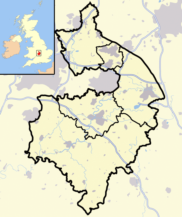 A map of the county of Warwickshire, England, United Kingdom